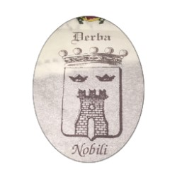 Stemma nobiliare